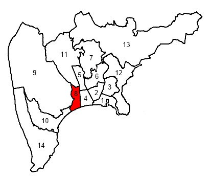 Location of canton of Nice-8 in the city of Nice, Alpes-Maritimes, France.